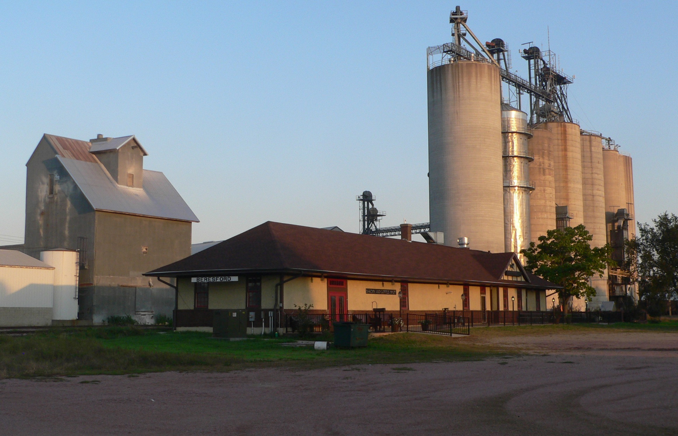 Chicago and Northwestern Railroad depot in downtown Beresford, South Dakota; seen from the northwest.